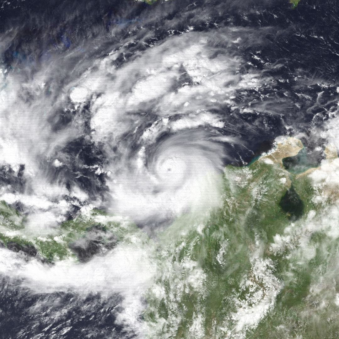 Hurricane Joan intensifying off the coast of Venezuela on October 18, 1988